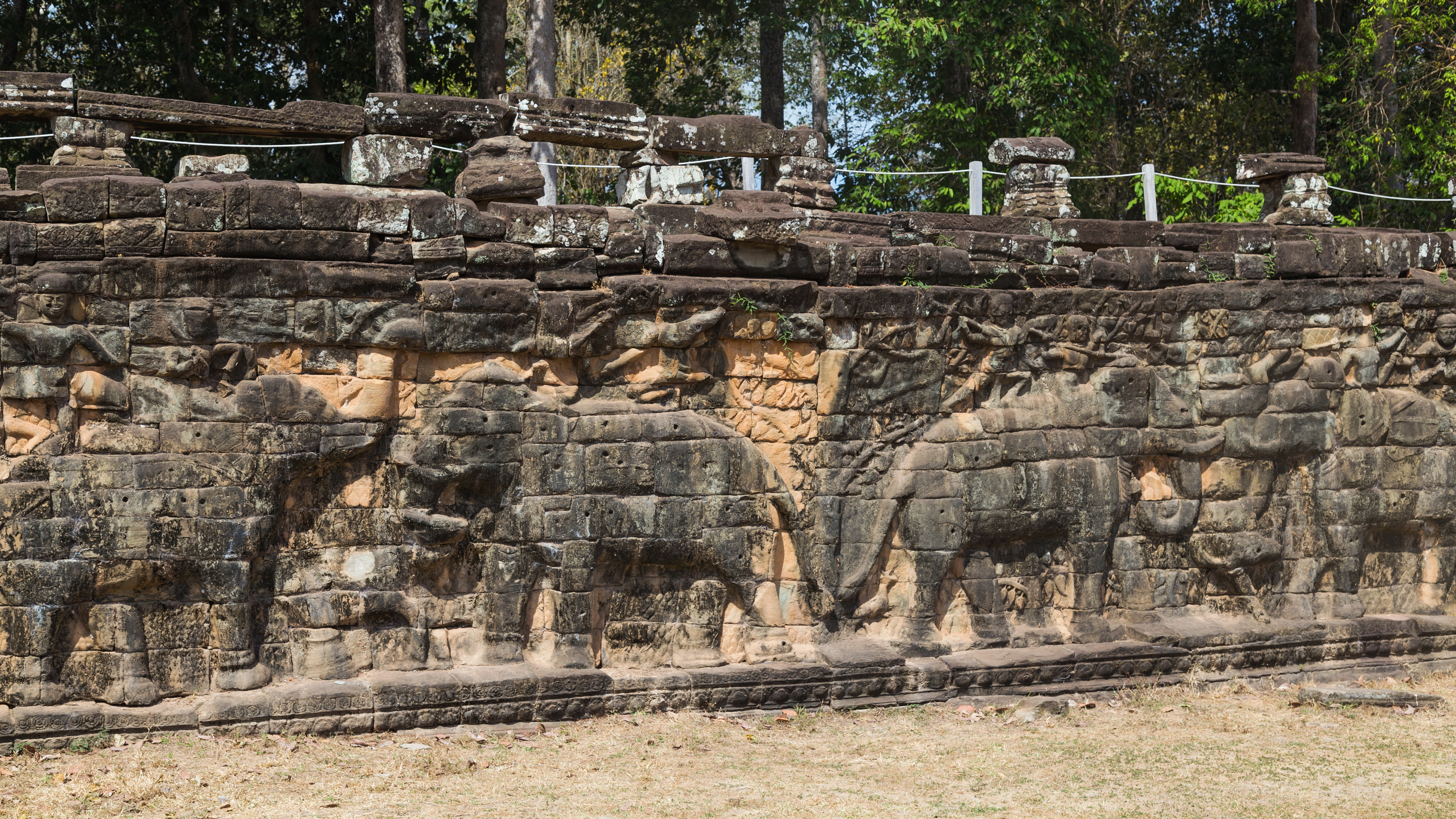 Terrace of the Elephants. Angkor Thom, Siem Reap Province, Cambodia.